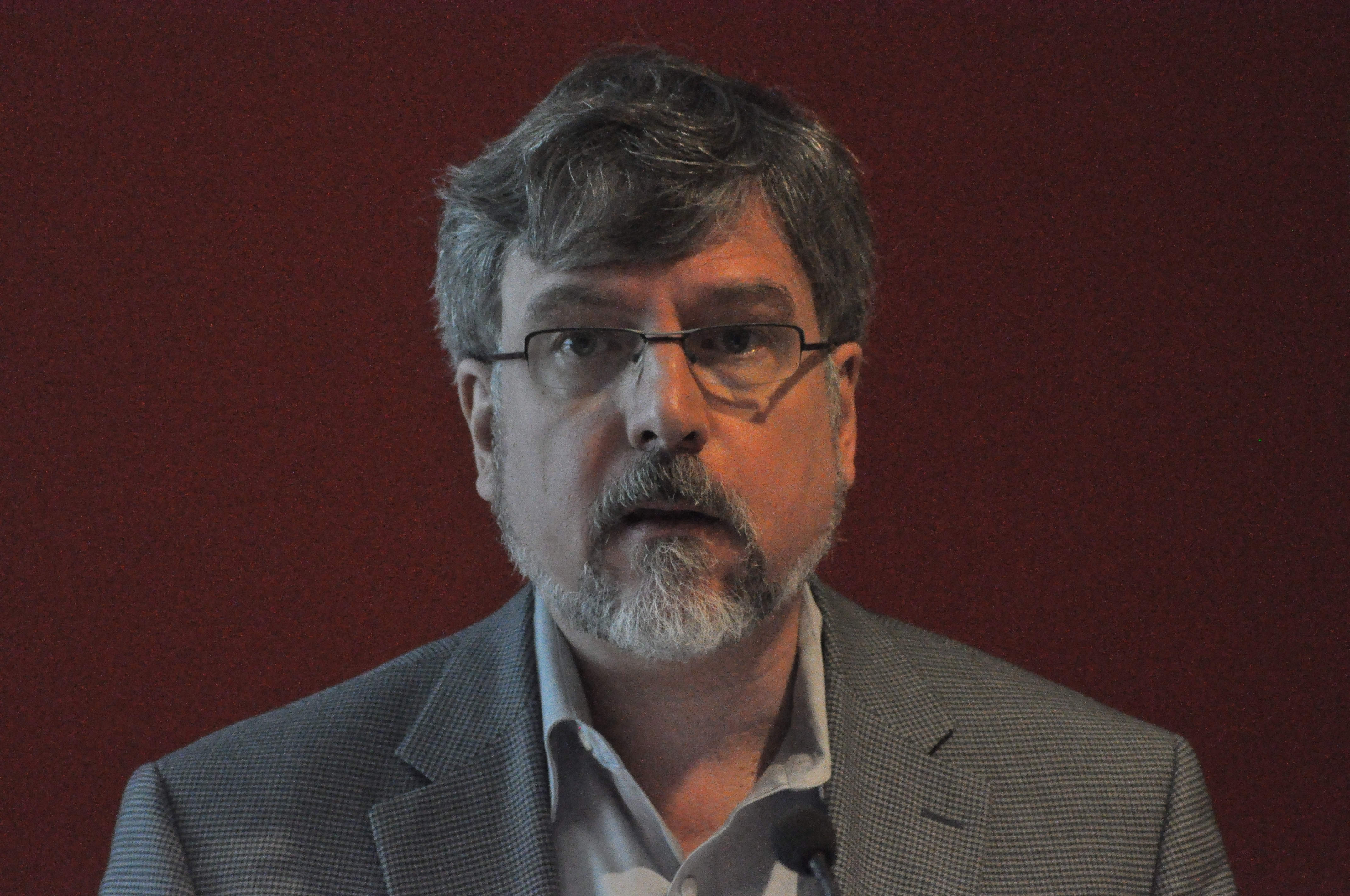 Critic J.D. Considine presenting on the "Mad Scientists" panel at 2010 Pop Conference, EMPSFM, Seattle, Washington.